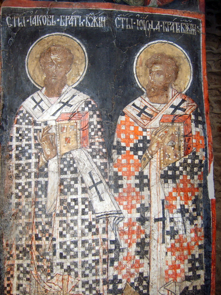 St Yavor and St Yuda from SS Peter and Pavel Church, Tarnovo, 14th century